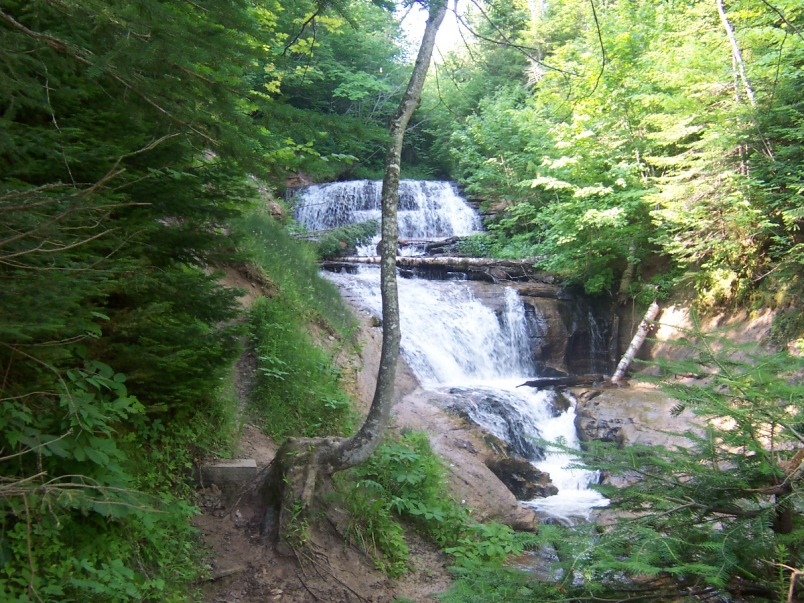 Sable Falls in the Pictured Rocks National Lakeshore